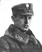 Picture of Wilhelm Hapsburg (Vasyl Vyshyvanyi)